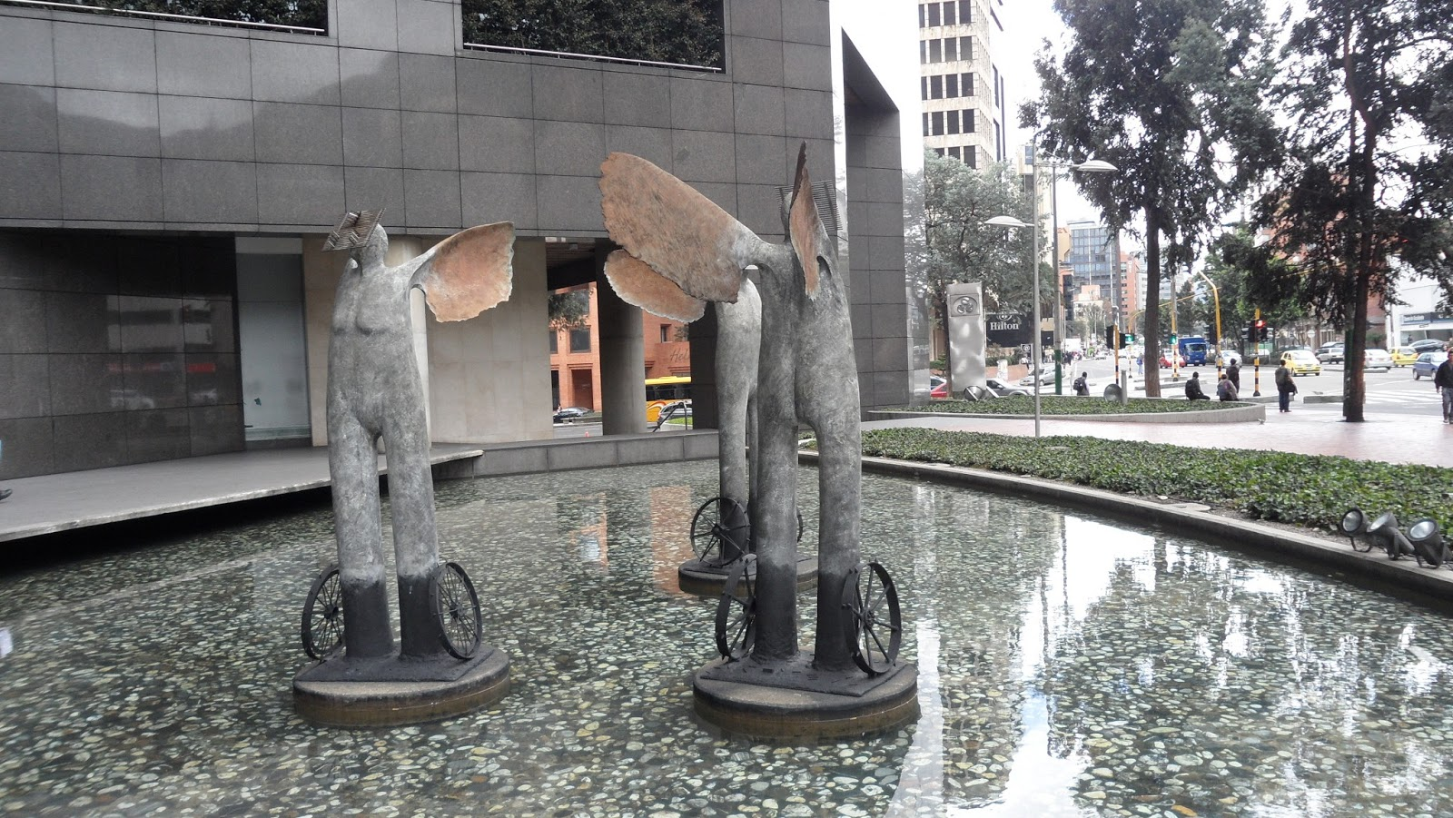 Jim Amaral, Women with wings 1,2 & 3; 1994; bronze.